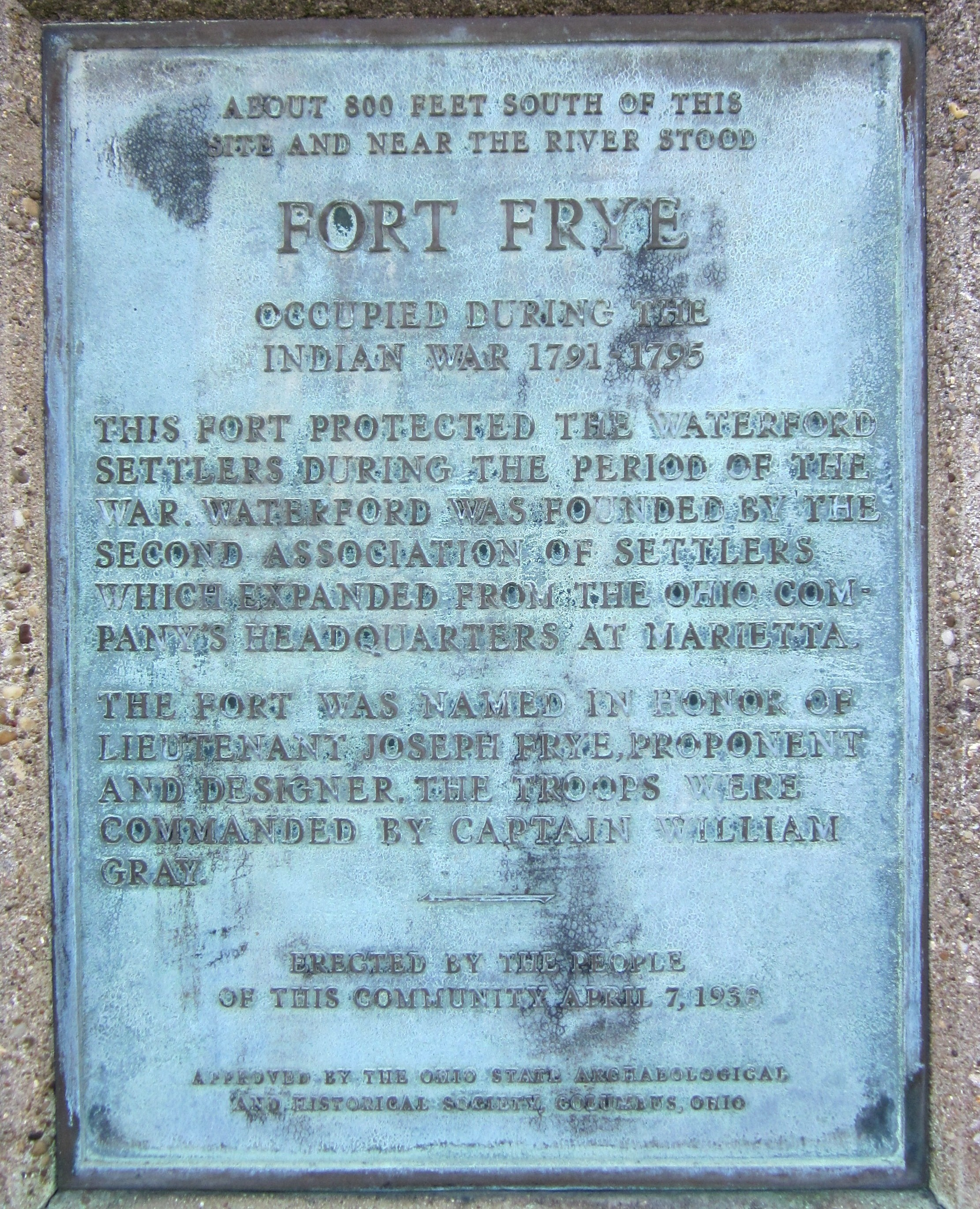 Fort Frye plaque at Beverly, Ohio, September 2012. I took this photo, and I release to the public domain. ColWilliam (talk) 18:37, 13 September 2012 (UTC)